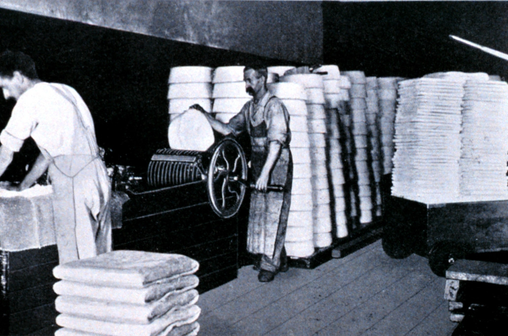 Processing of spermaceti. Grinding and pressing spermaceti for removal of taut-pressed oil.